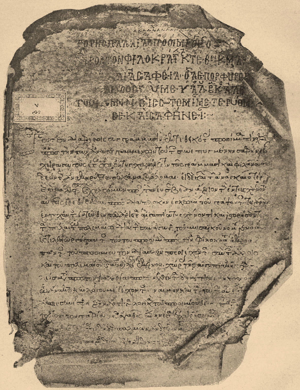 Illustration from Brockhaus and Efron Jewish Encyclopedia (1906—1913)